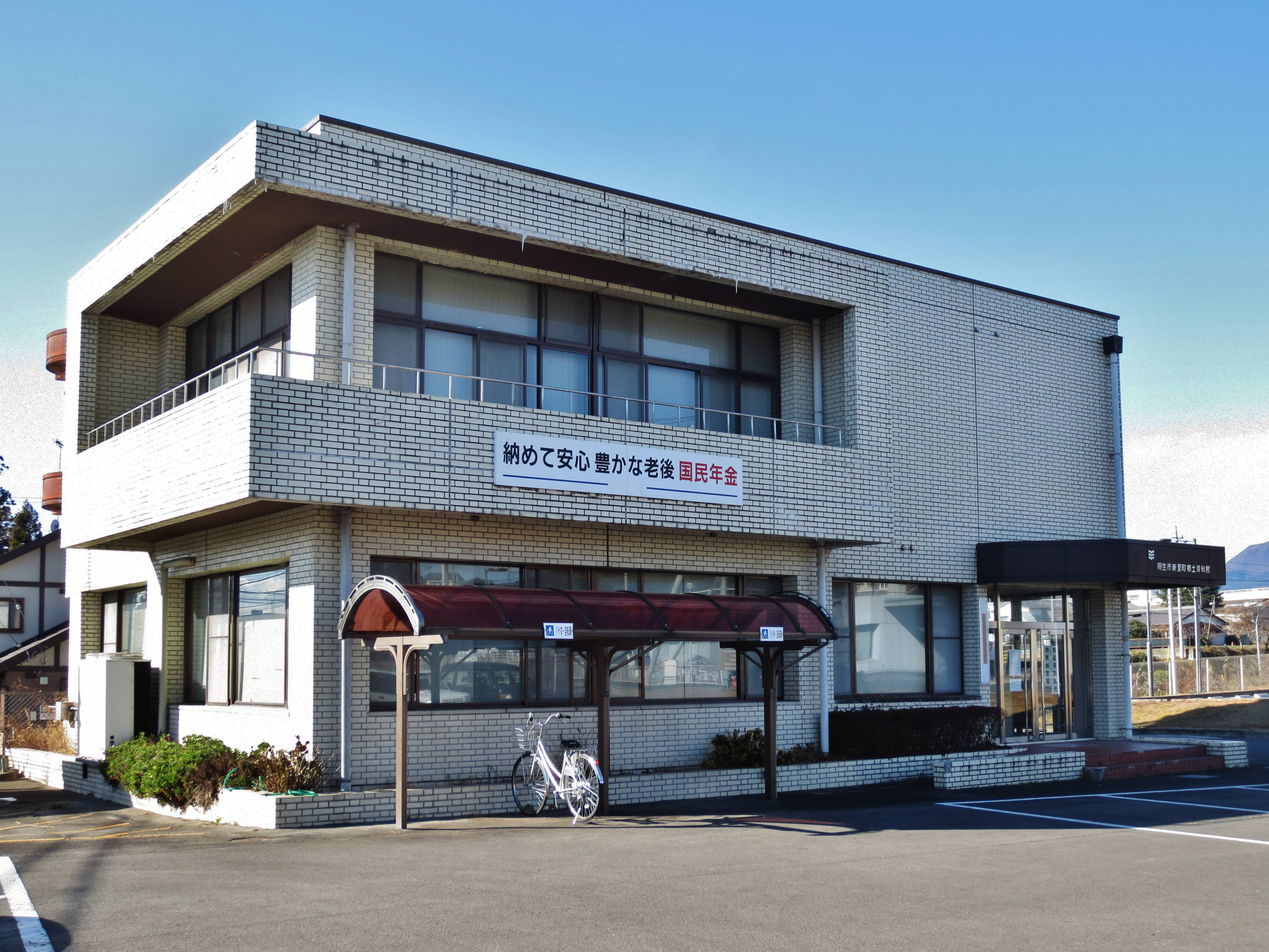 Kiryu city Niisato Local Materials Museum.